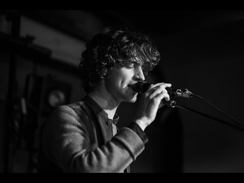 Performing live in New York City.